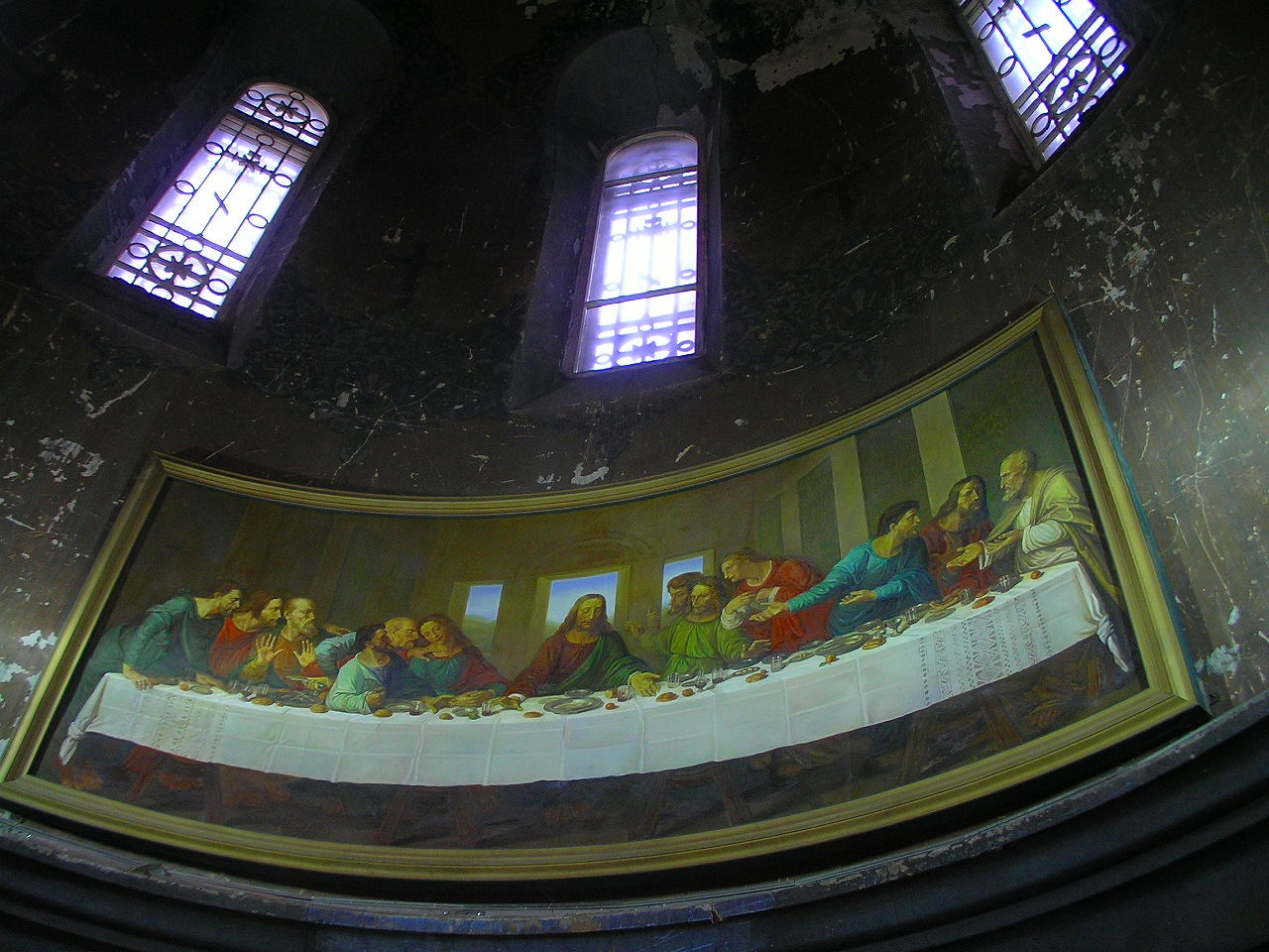 The Cathedral of the Holy Wisdom of God in Harbin